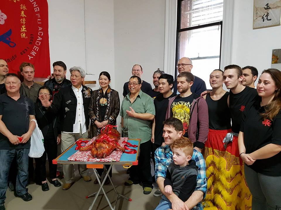 Grand Master Felix Leong's Rebirth from the ashes ceremony in Adelaide with Maurice Novoa Ruiz and State members for parliament Jing Lee and David Pisoni